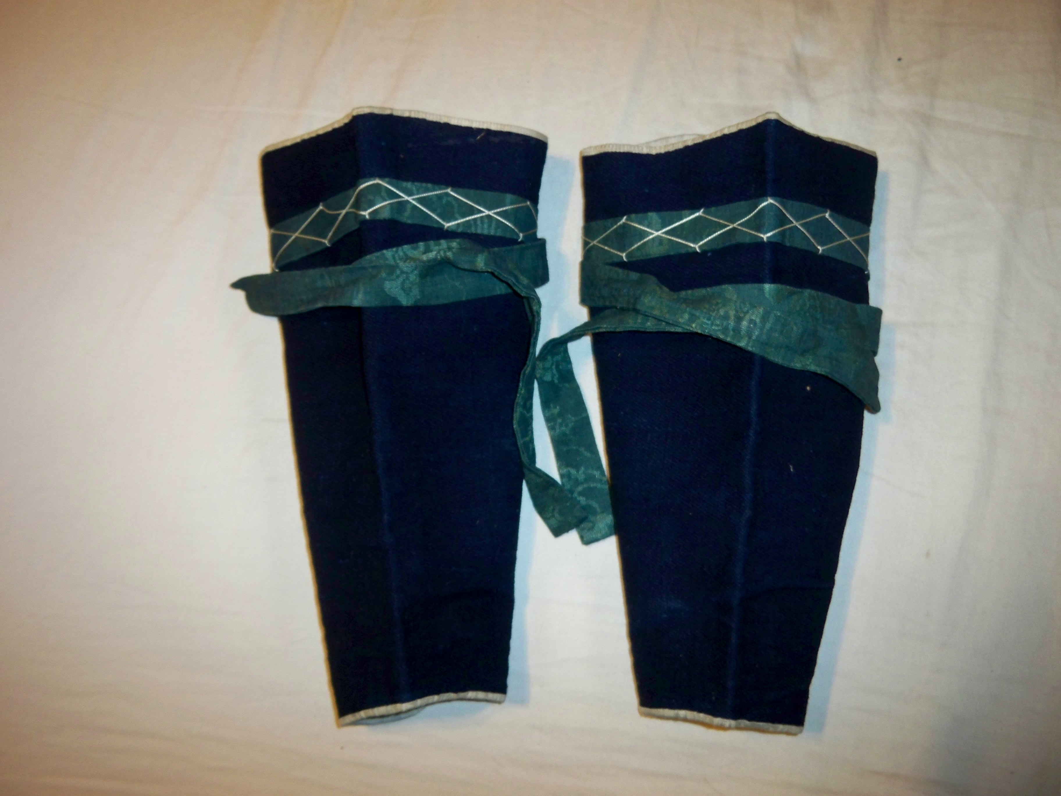 Antique Japanese kyahan or kiahan.